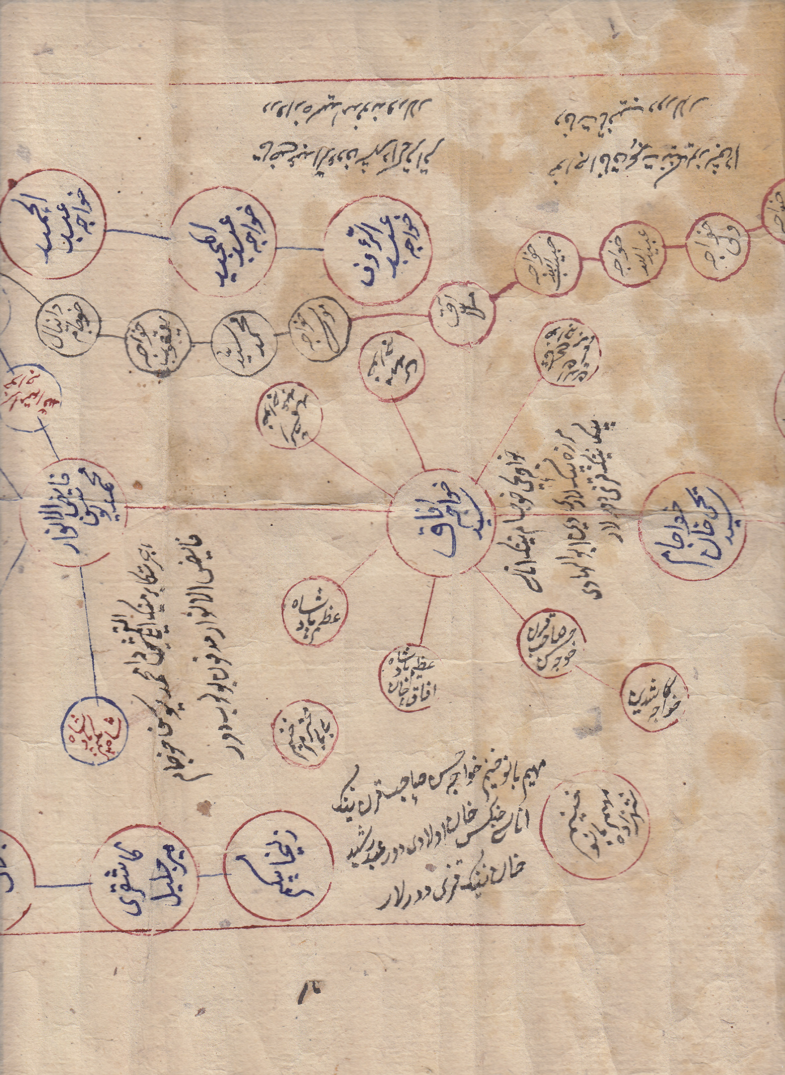 genealogy book about Akaq khoja